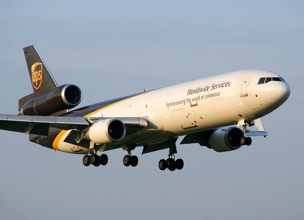 UPS Airlines McDonnell Douglas MD11 N252UP arrives Warsaw Airport